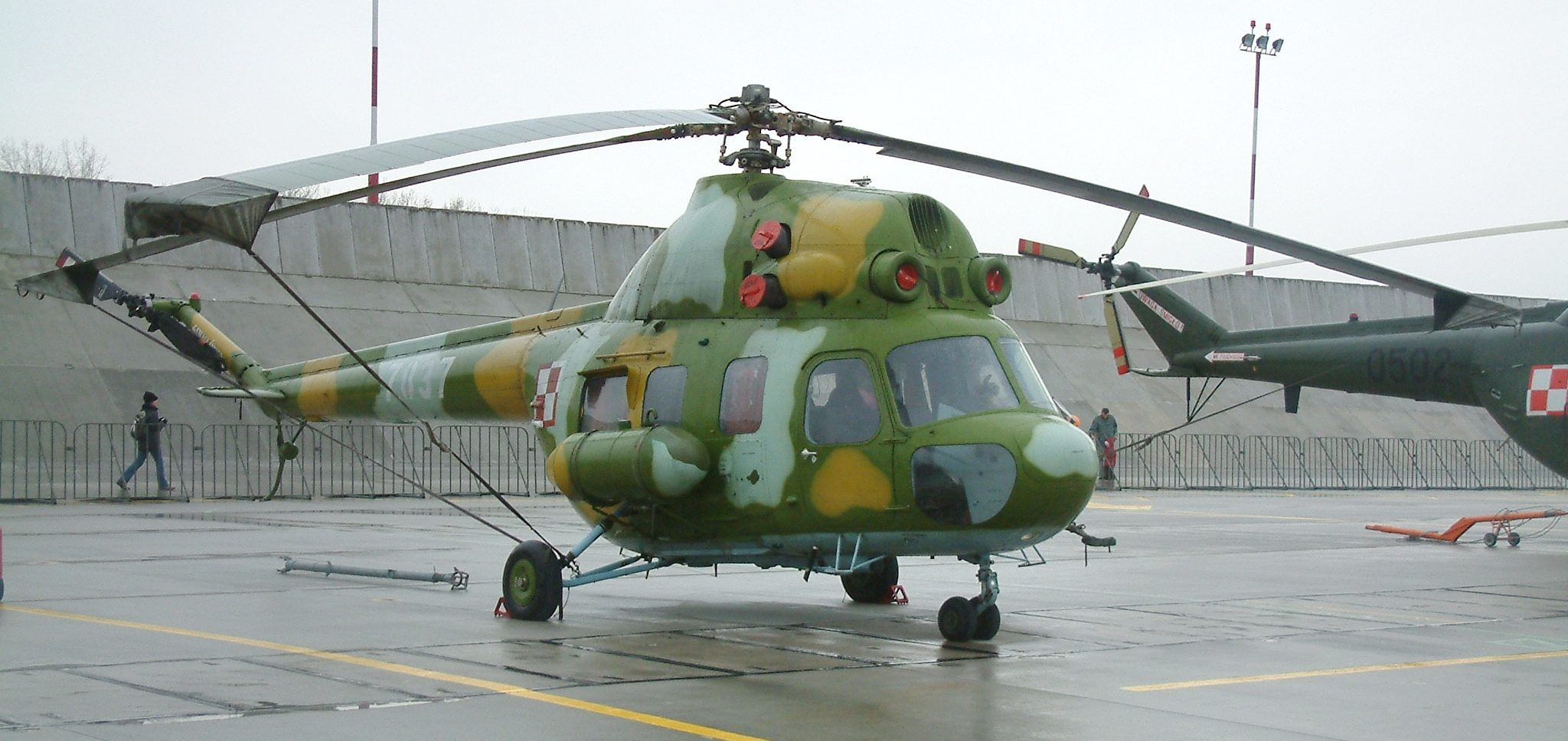 Mi-2 #7837 of Polish Air Forces, 31st. Air Base Poznań-Krzesiny